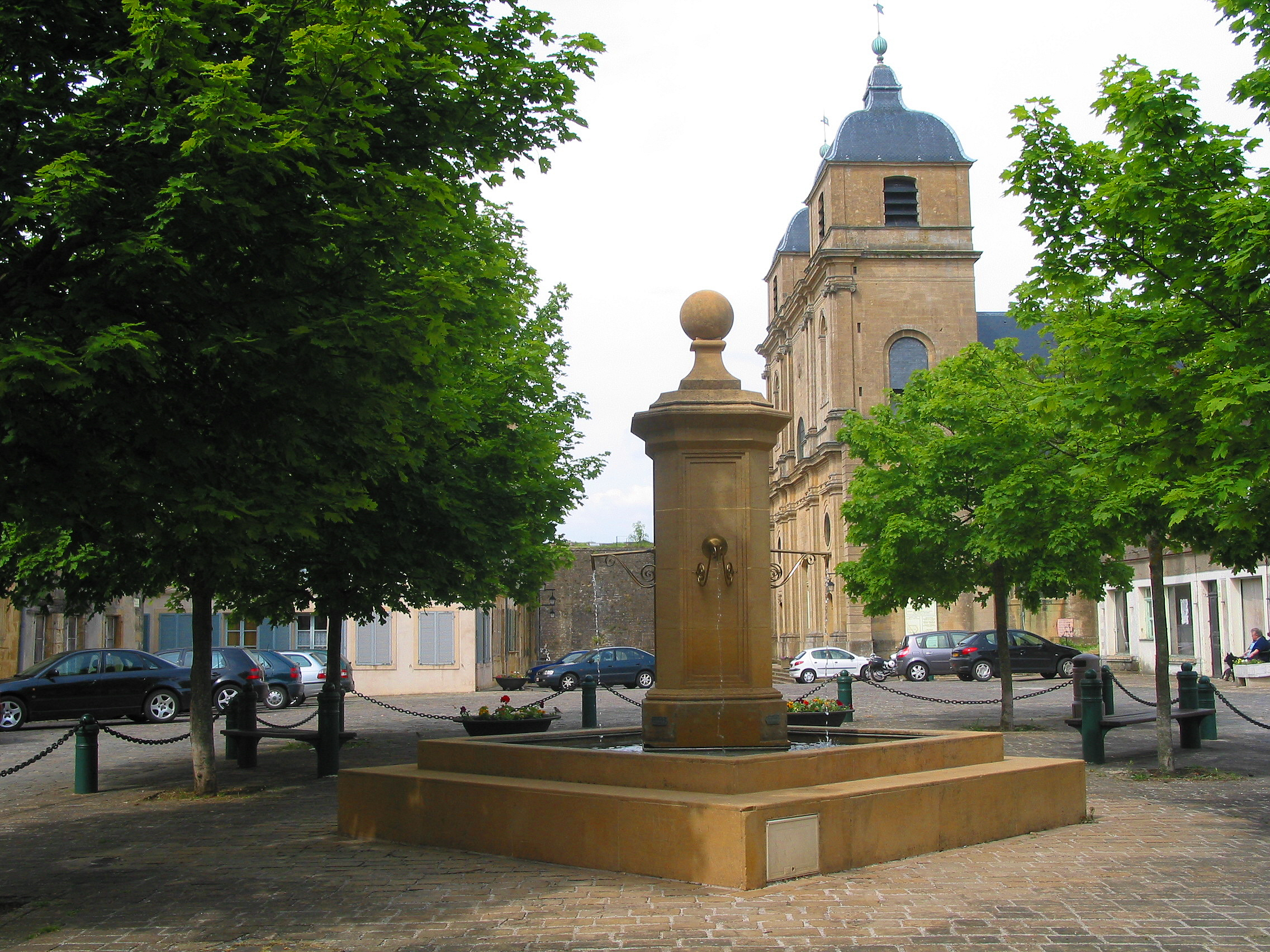 Montmédy haut (France), Place de l’Hôtel de Ville - The fontain and the Saint Martin’s church (1790).